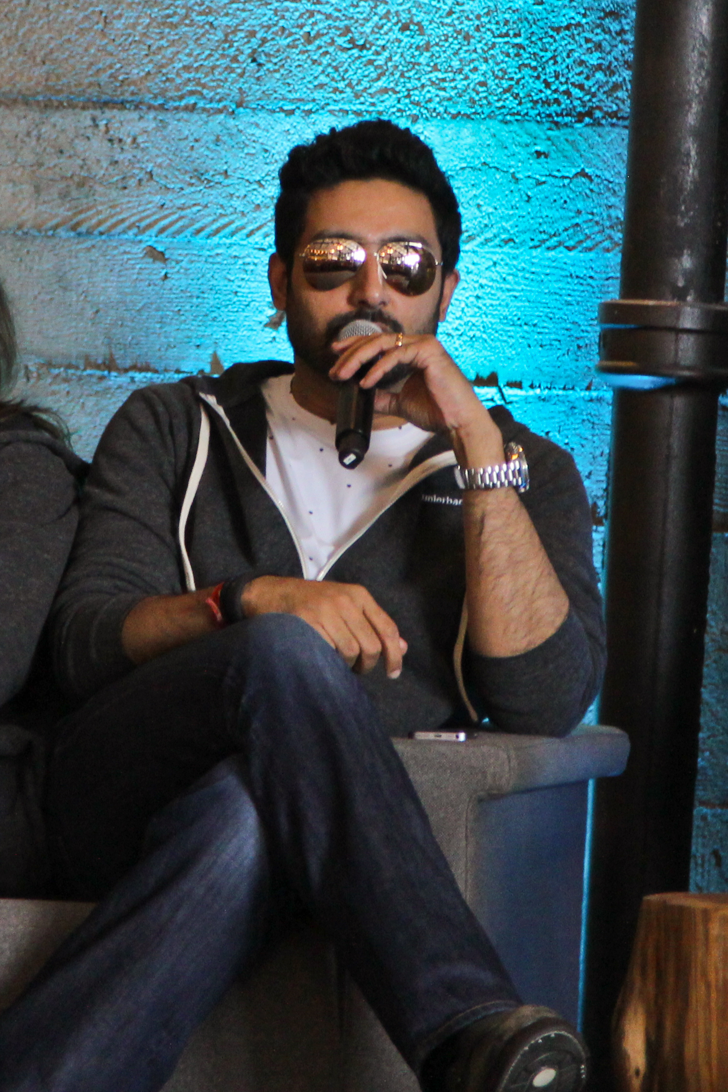 Crew of Happy New Year at Twitter HQ